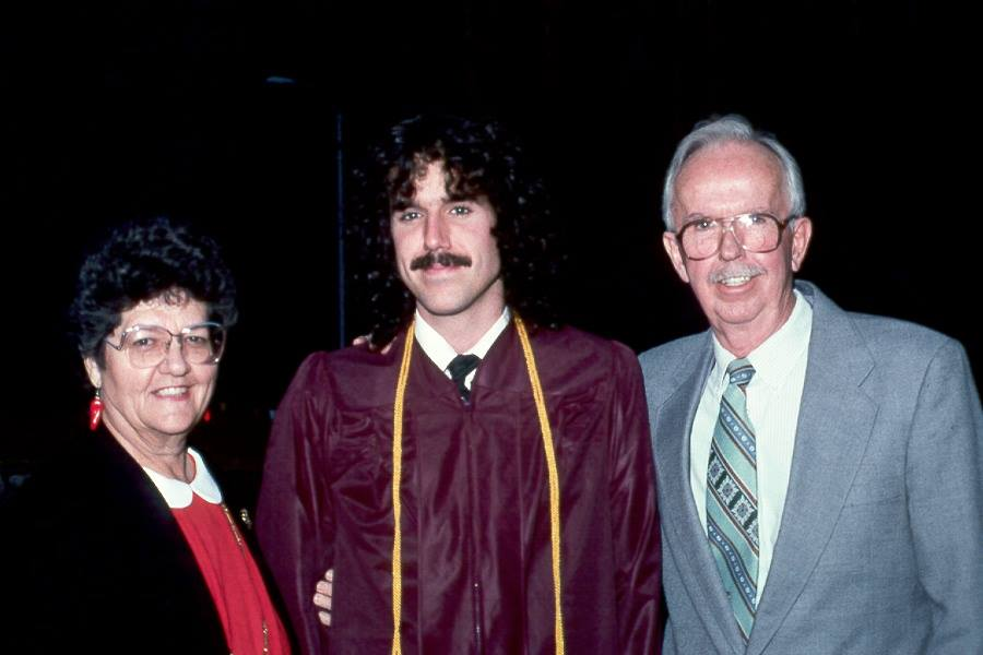 Terry Davis